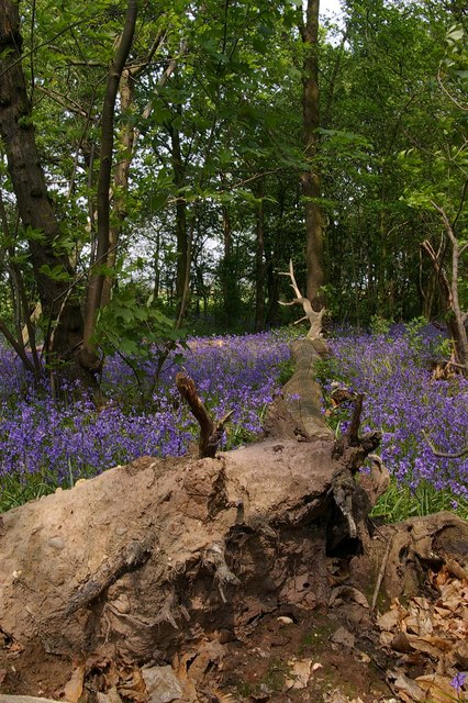 A fallen tree in Belhus Wood, South Ockendon, Thurrock, England. Modern forestry practice now allows fallen timber to rot as a home for invertebrates. A tidy wood is less wildlife friendly.